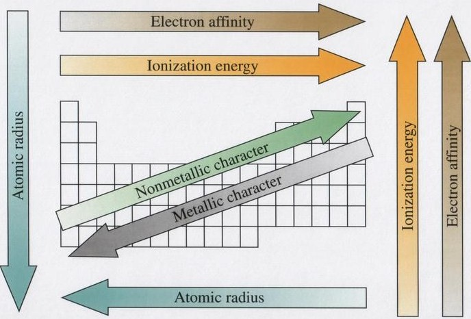 Periodic trends